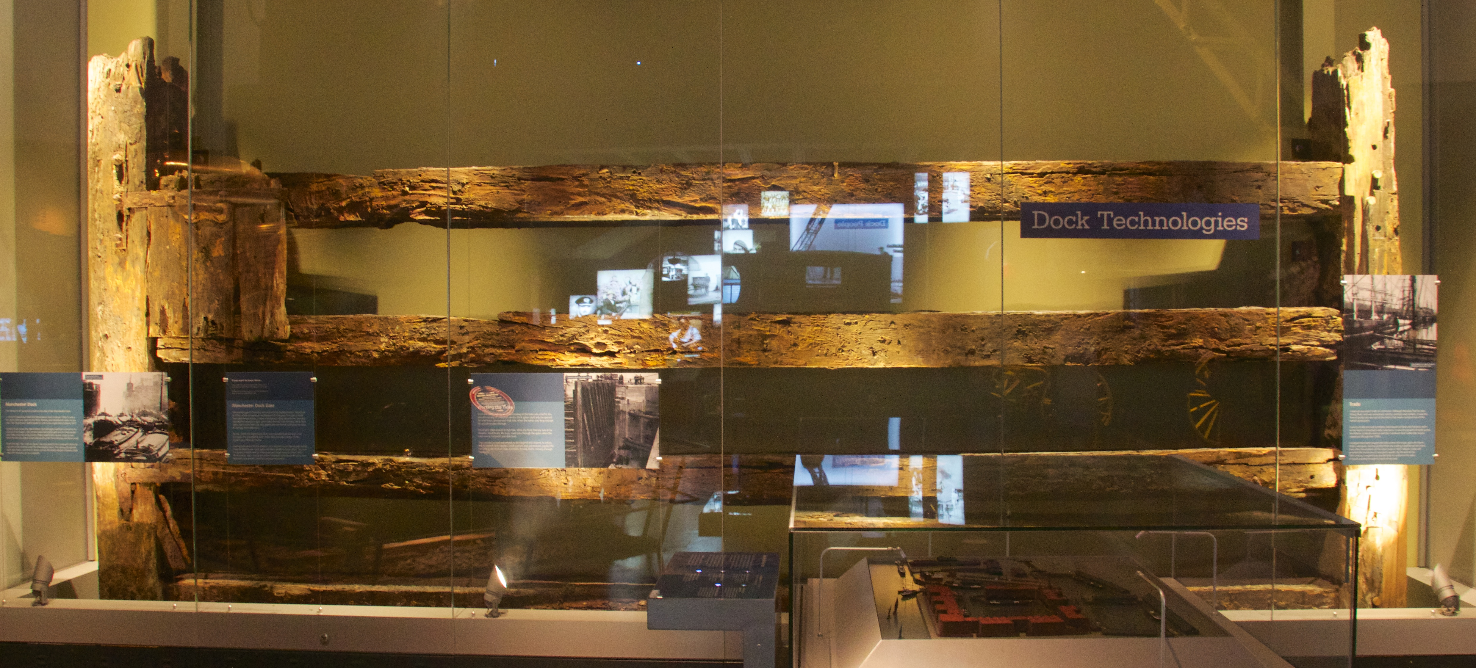 Manchester Dock Gate. Made from greenheart timber. On display in the Museum of Liverpool.